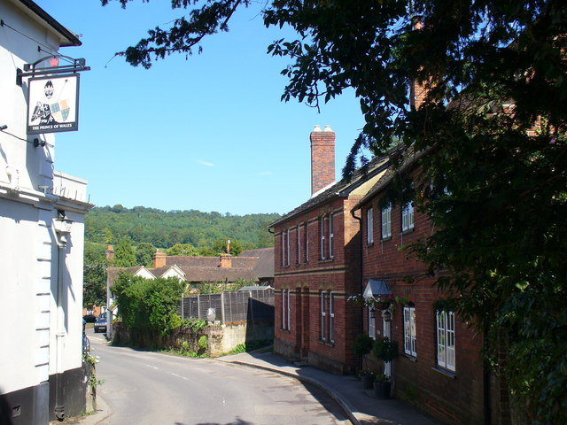 Shere Lane Looking downhill, from the south, to the Shere village centre. On the left is the Prince of Wales pub and on the right are brick cottages.